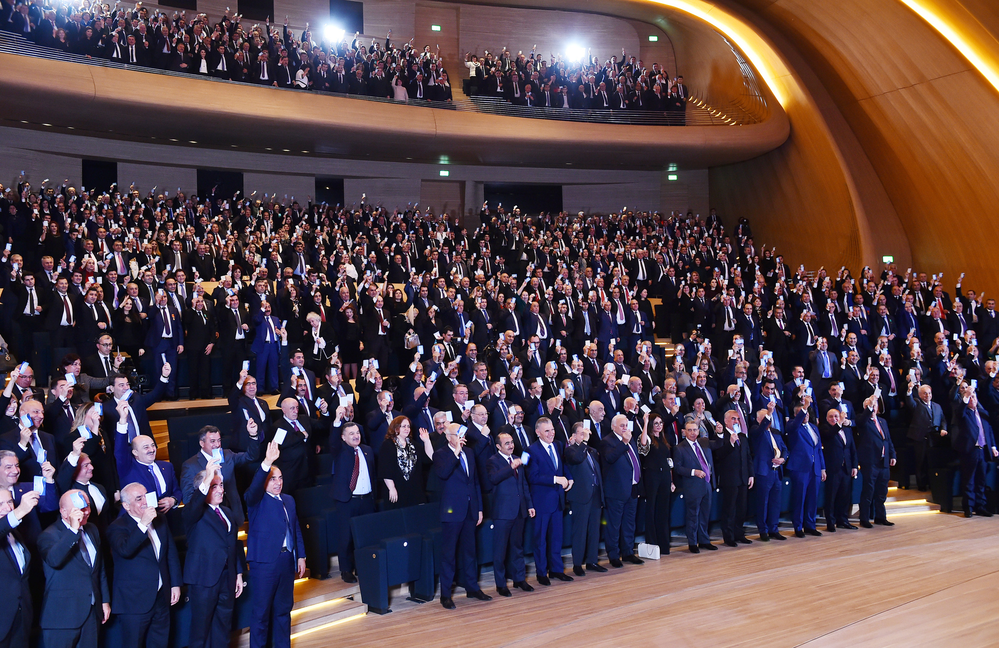 6th Congress of New Azerbaijan Party held in Baкu